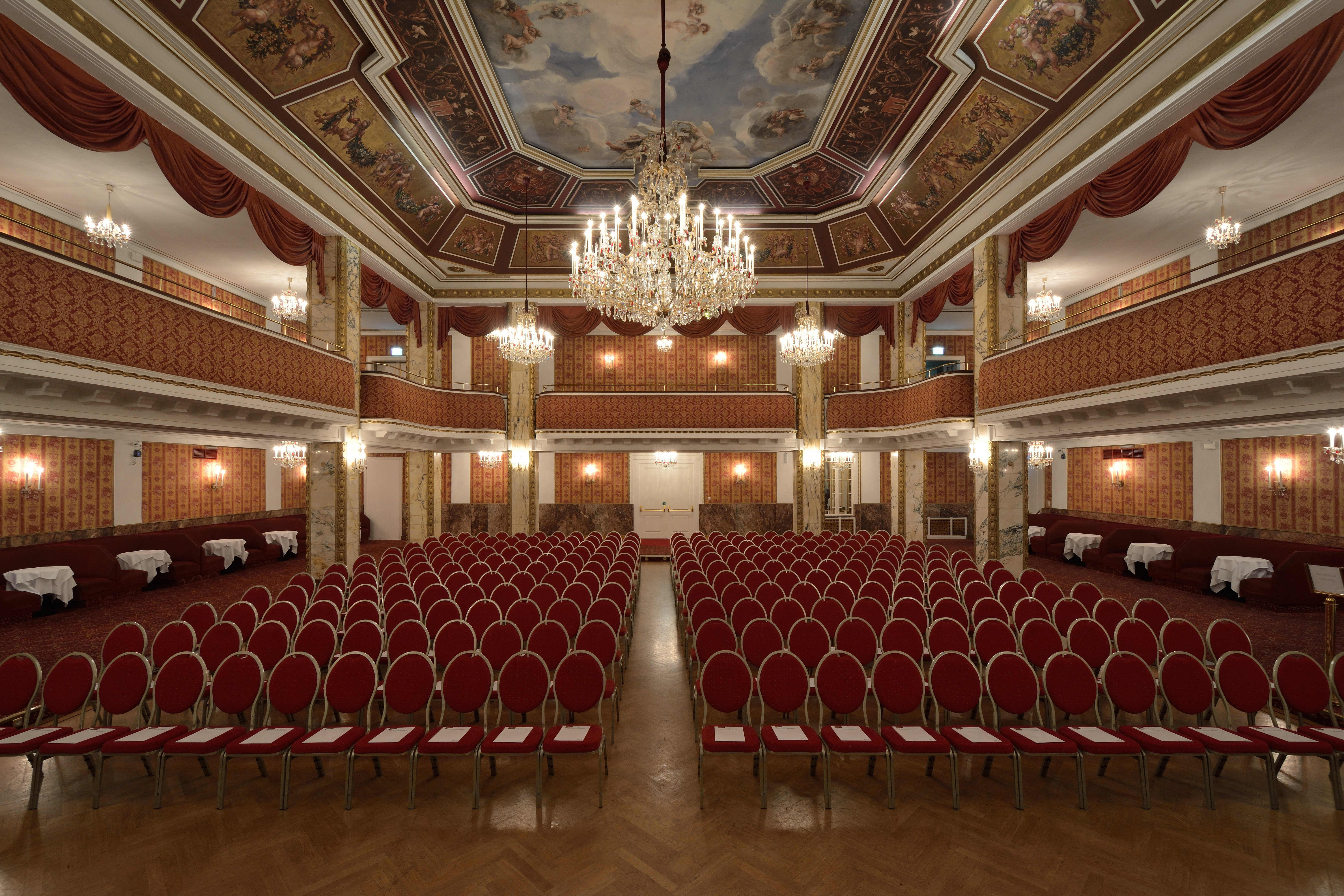 Ballroom of Parkhotel Schönbrunn, Hietzinger Hauptstraße 10-14, 13th district of Vienna